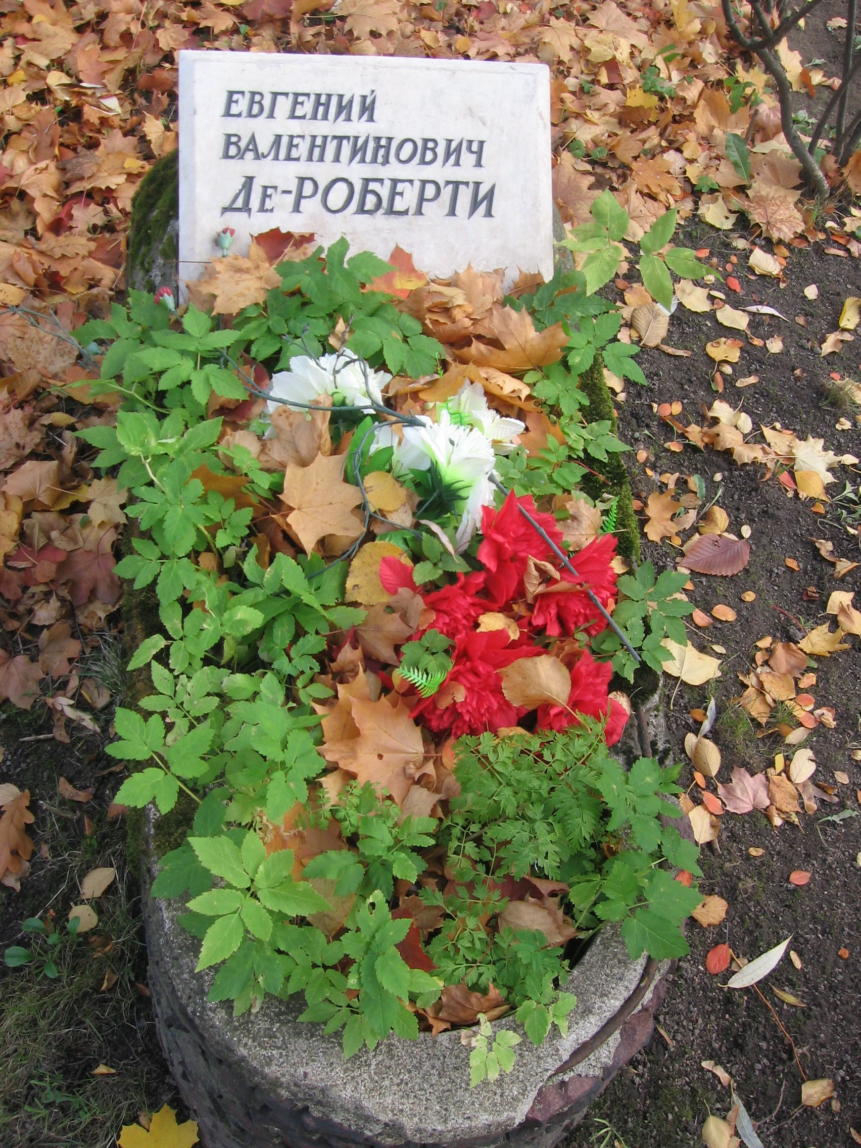 Grave of Eugene De Robertis